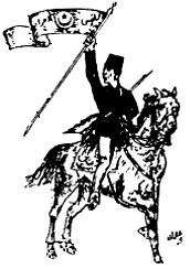 Al Moumathil emblem by Mustafa Osman